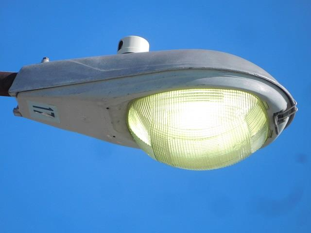 History of street lighting : General Electric M250R1 dayburner (1970–1985) (50–250 watts)